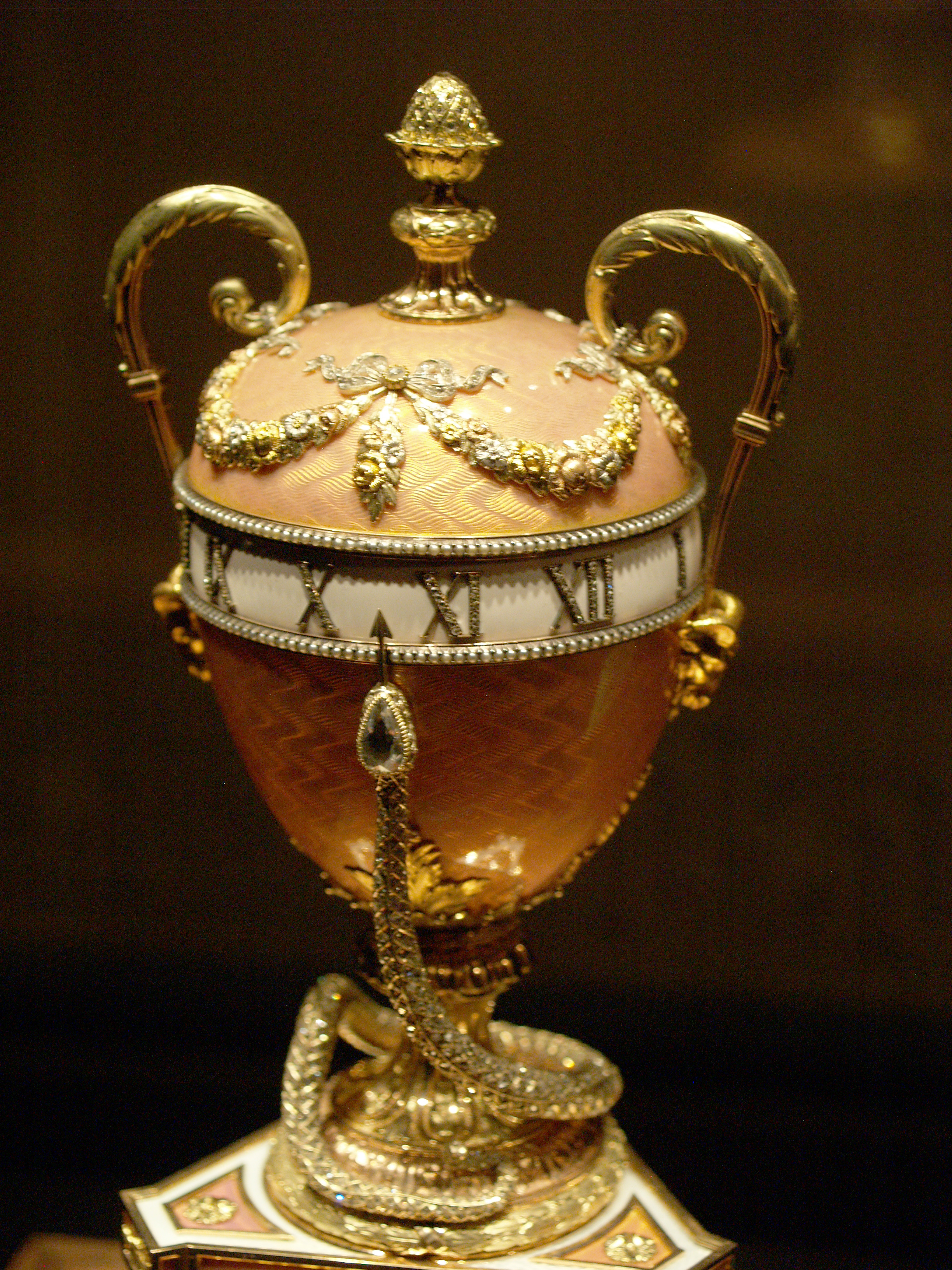 Duchess of Marlborough Egg photographed at an exhibition in Rome.